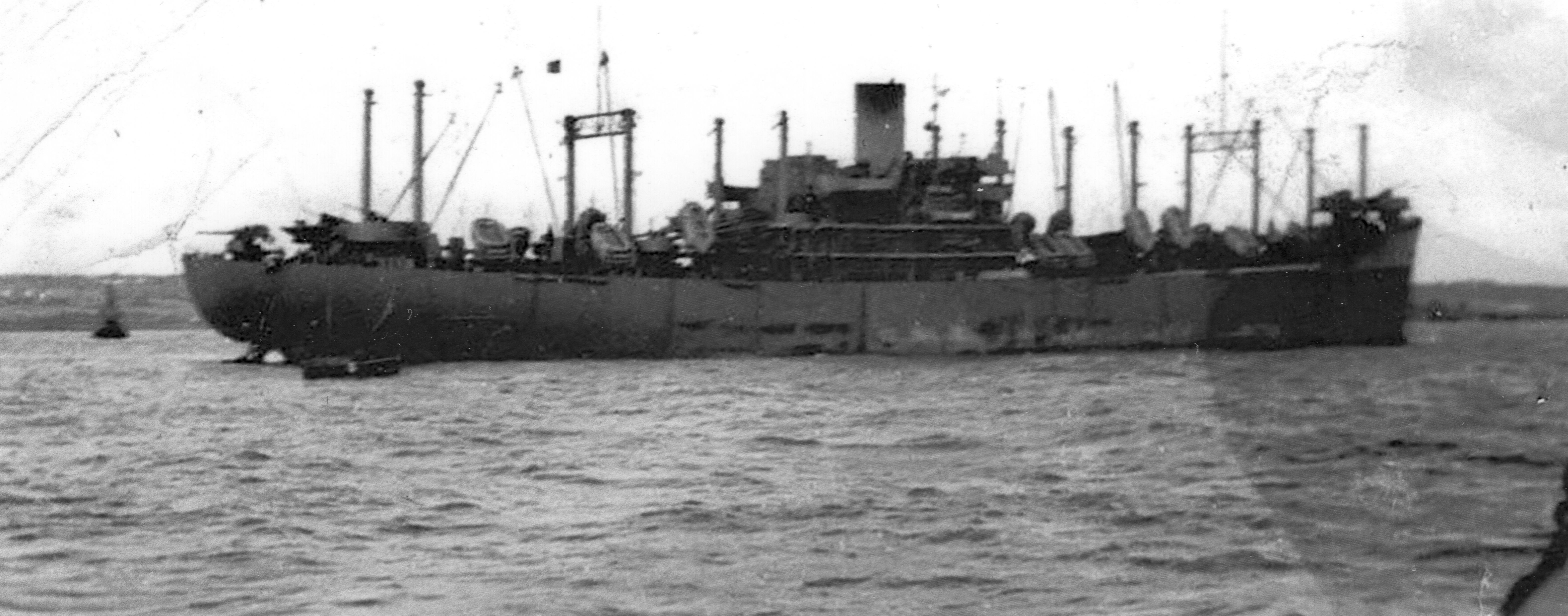 United States ATS SS Sea Owl troop transport anchored at Weston Super Mare England, November 1944. SS Sea Owl was a United States Maritime Commission Type 3C-S-A2 hull, modified into a dedicated troop transport that operated in the European Theater of Operations during and immediately after World War II. Image taken November 1, 1944.